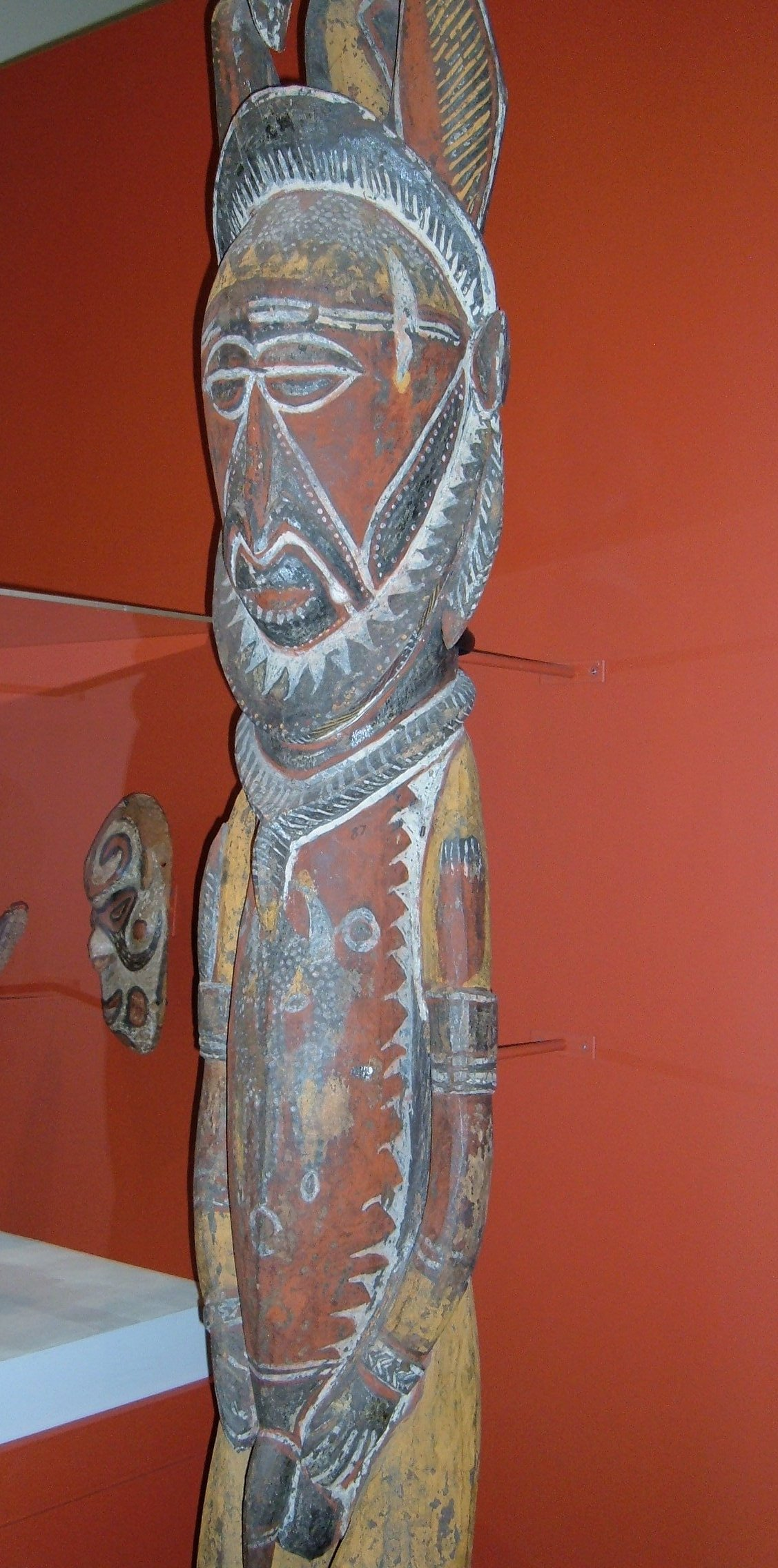 20th century wooden Abelam ancestor figure (nggwalndu) on display at the Iris & B. Gerald Cantor Center for Visual Arts on the Stanford University campus in Stanford, California.